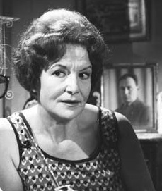 María Luisa Robledo-actriz argentina